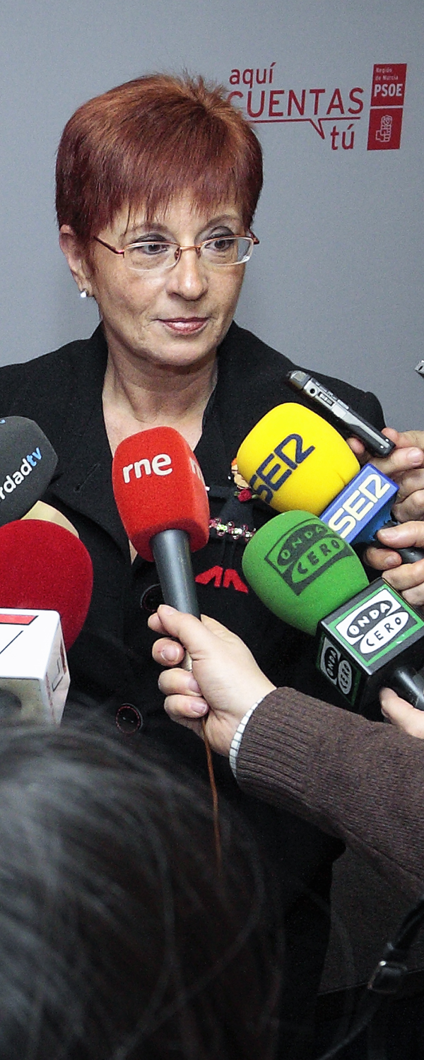 Murcia Regional Assembly member Begoña Garcia Retegui (PSOE – Bullas) at a press conference